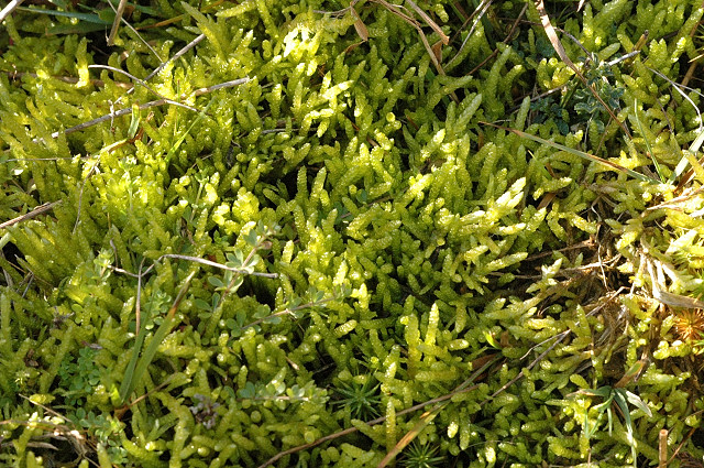 Picture taken in Commanster, Belgian High Ardennes . Species: Pseudoscleropodium purum